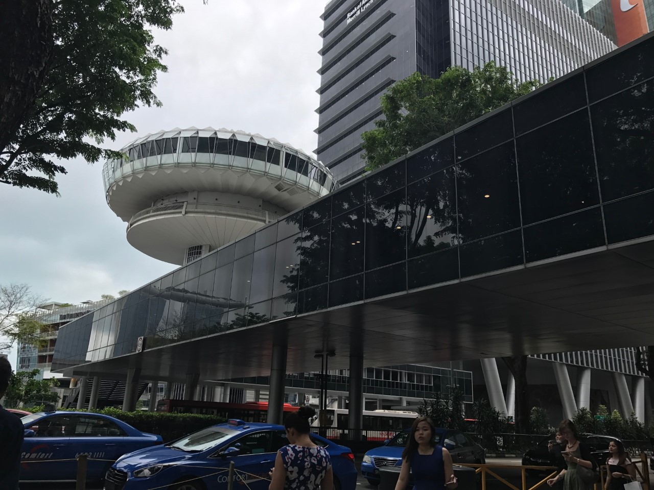 OUE link and Revolving Tower 2